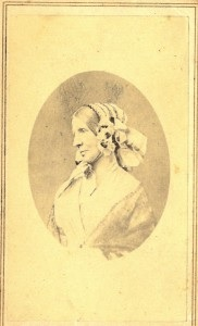 Abigail Bailey James, (wife of John Hough James). Portrait used with permission from Elizabeth Brice Assistant Dean for Technical Services & Head, Special Collections and Archives Miami University Libraries.